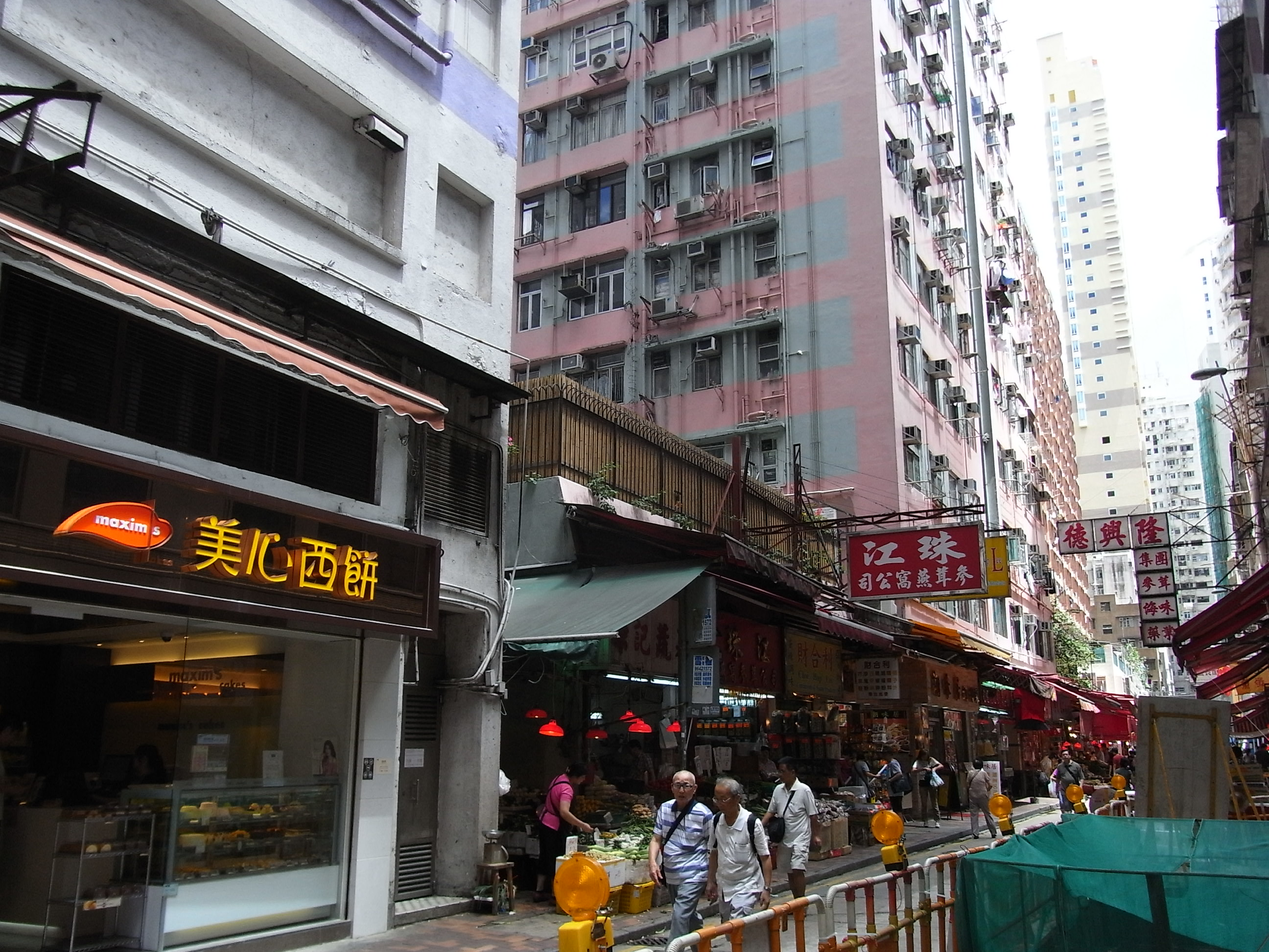 灣仔 軒尼詩道, Hennessy Road, Wan Chai, Hong Kong